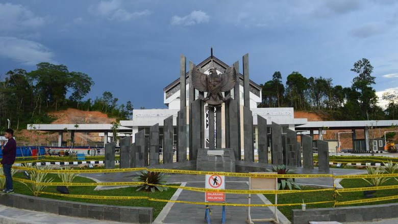 Entikong border checkpoint, Sanggau, West Kalimnatan, Indonesia